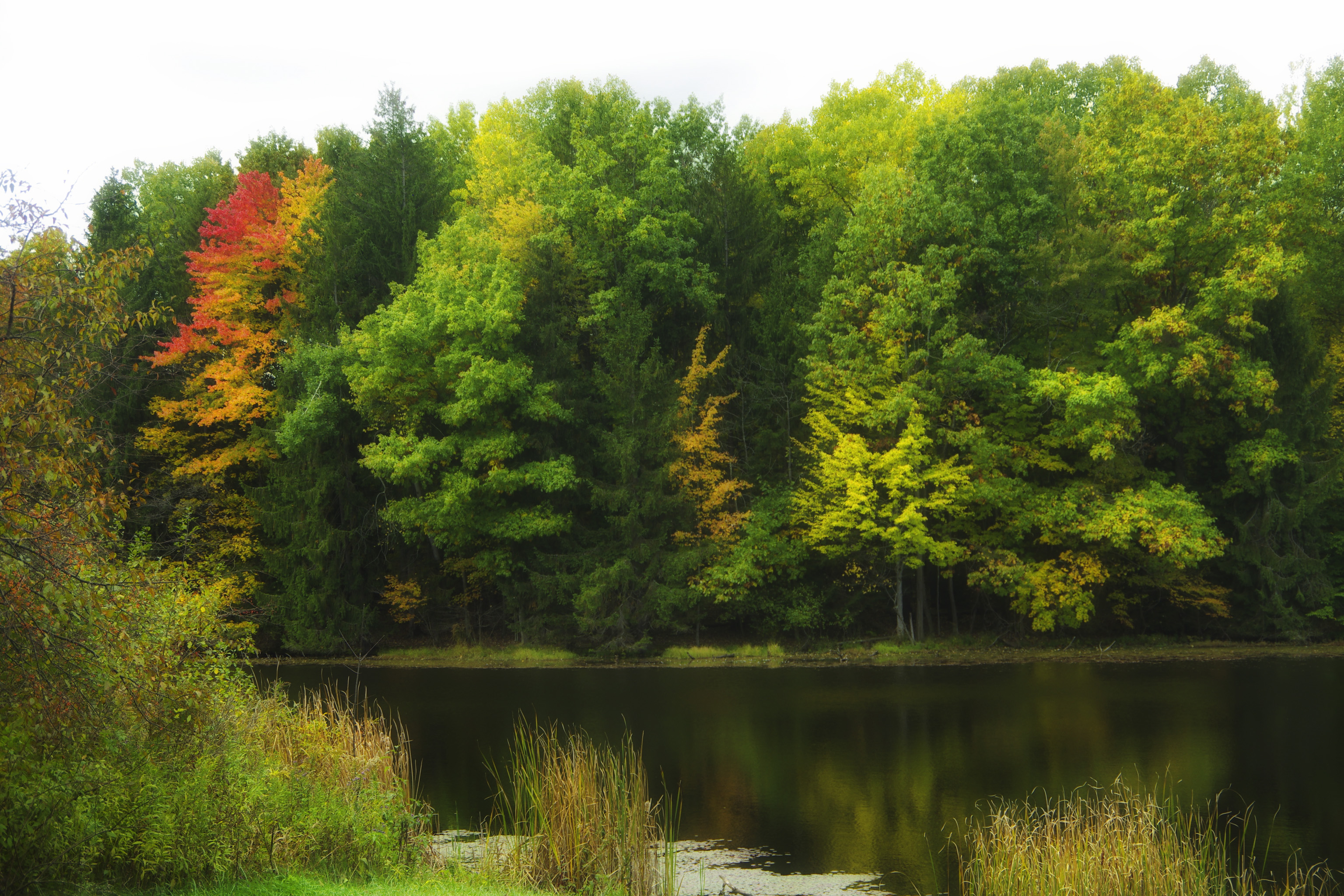 Sylvan Pond, Cuyahoga Valley National Park, Ohio